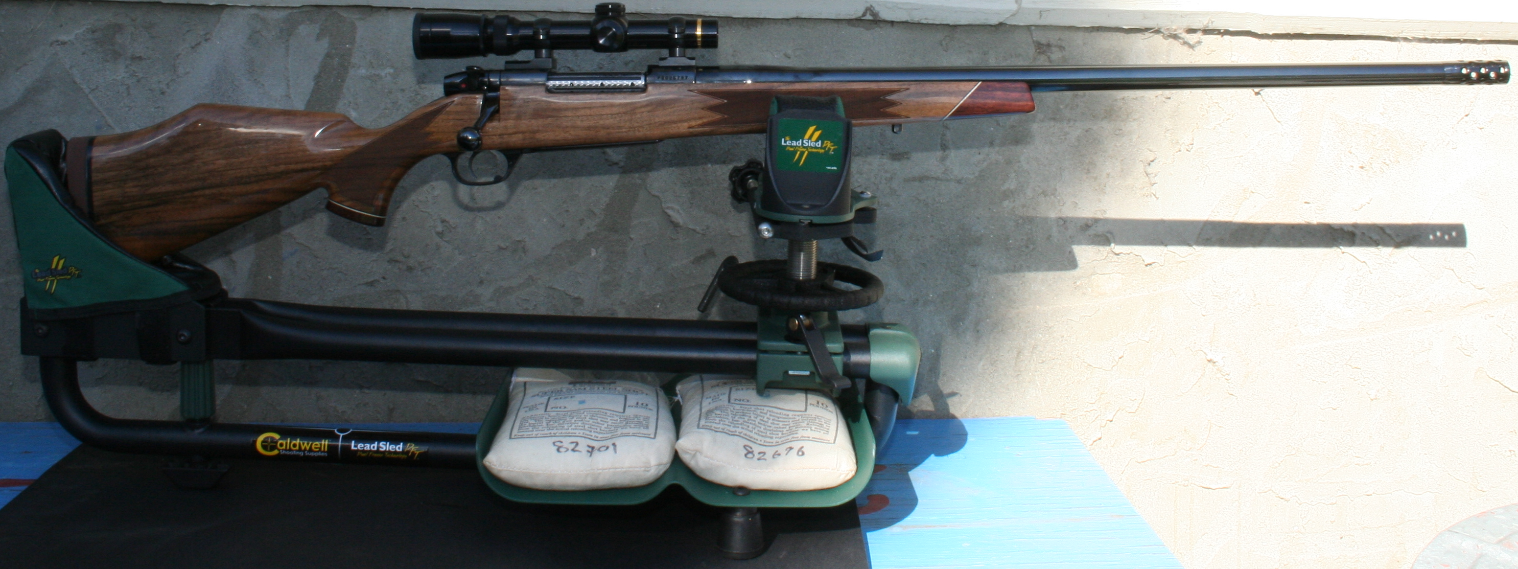 .460 Weatherby Magnum ready to be sighted in. Accubrake, Caldwell Lead Sled, 20lb lead weight, all required to dampen recoil while sighting in.